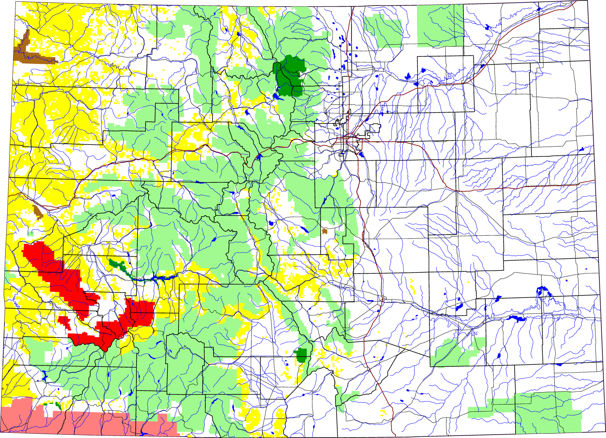 A map of Colorado, with Uncompahgre National Forest highlighted in red. The light green is other Forest Service land, yellow is BLM land, dark green is National Park, brown is National Monument or National Historic Site, pink is Indian reservation. The reddish lines are Interstate Highways. David Benbennick made this map with data from . The map uses the azimuthal equidistant projection, centered on (-105.7167, 39.1333) (degrees latitude, longitude). The area outside Colorado is transparent, so it should look nice on non-white backgrounds. Eventually, I will upload the 4 megabyte Metapost script I used to make this map. In the mean time, see map.mp.